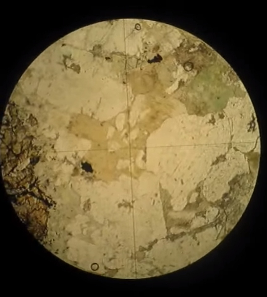 Microscopic image of Hornblende and Plagioclase under normal light